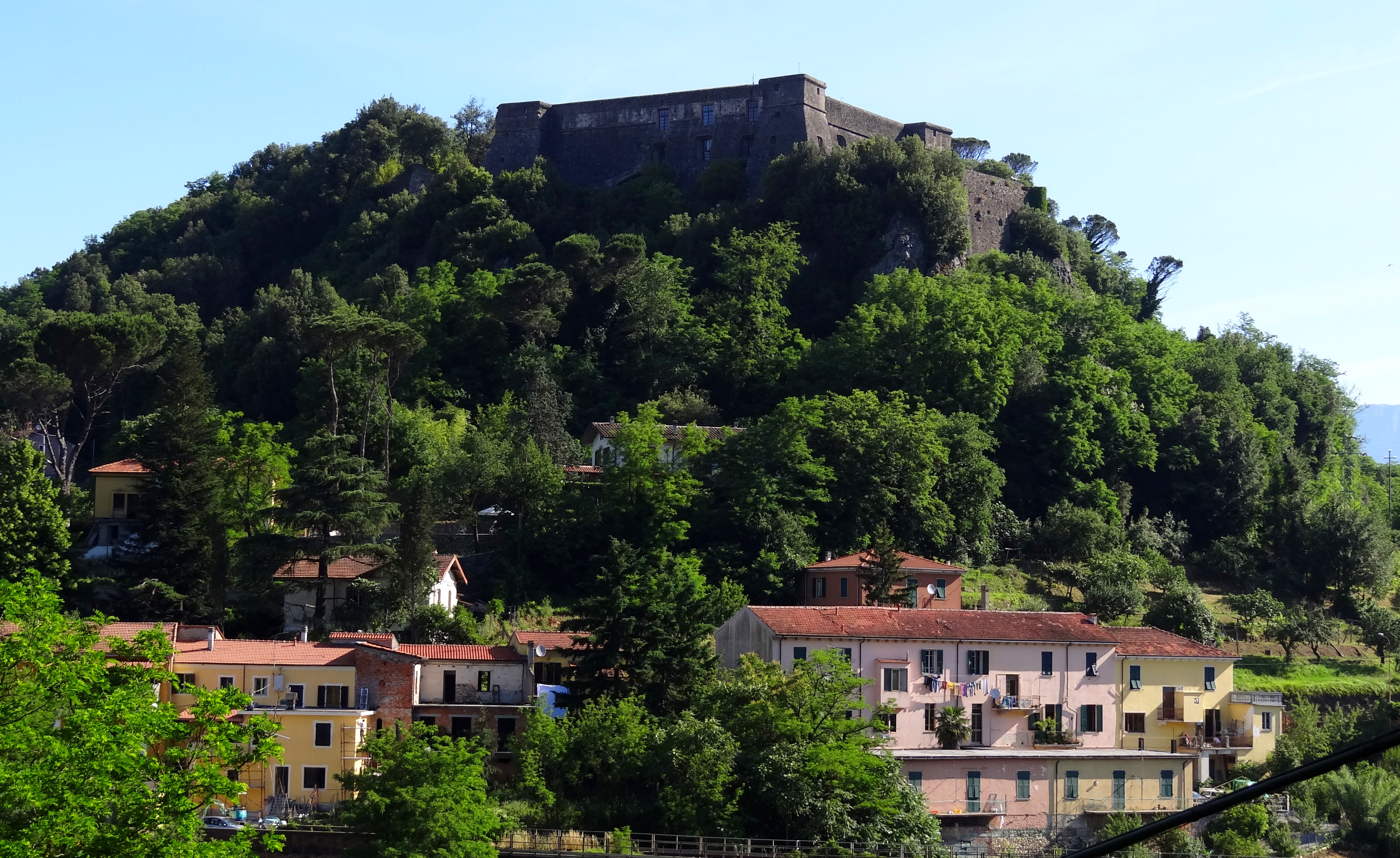 The Fortress Brunella above Aulla, built in the 16th century and today used as a museum.